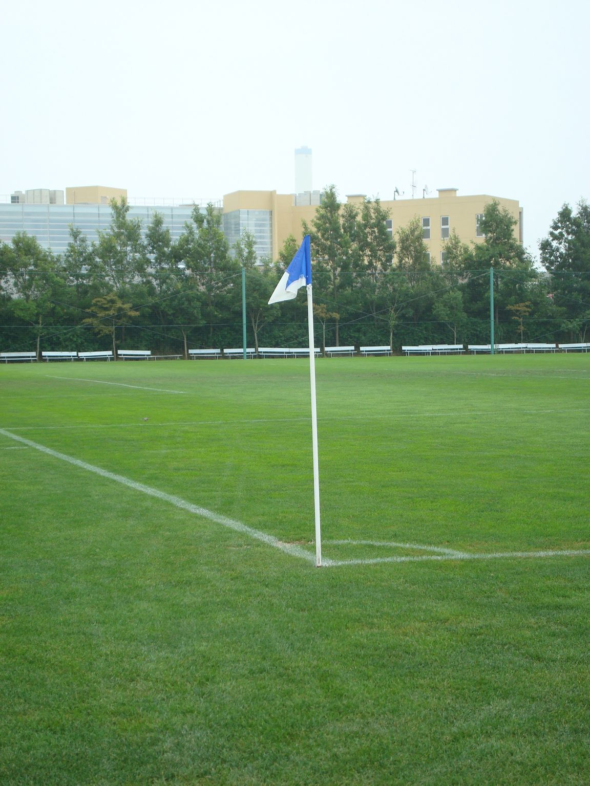 Girls dormitory "Ōgi" (fan) of JFA academy Fukushima, the boarding school for football youngsters placed in J-Village.